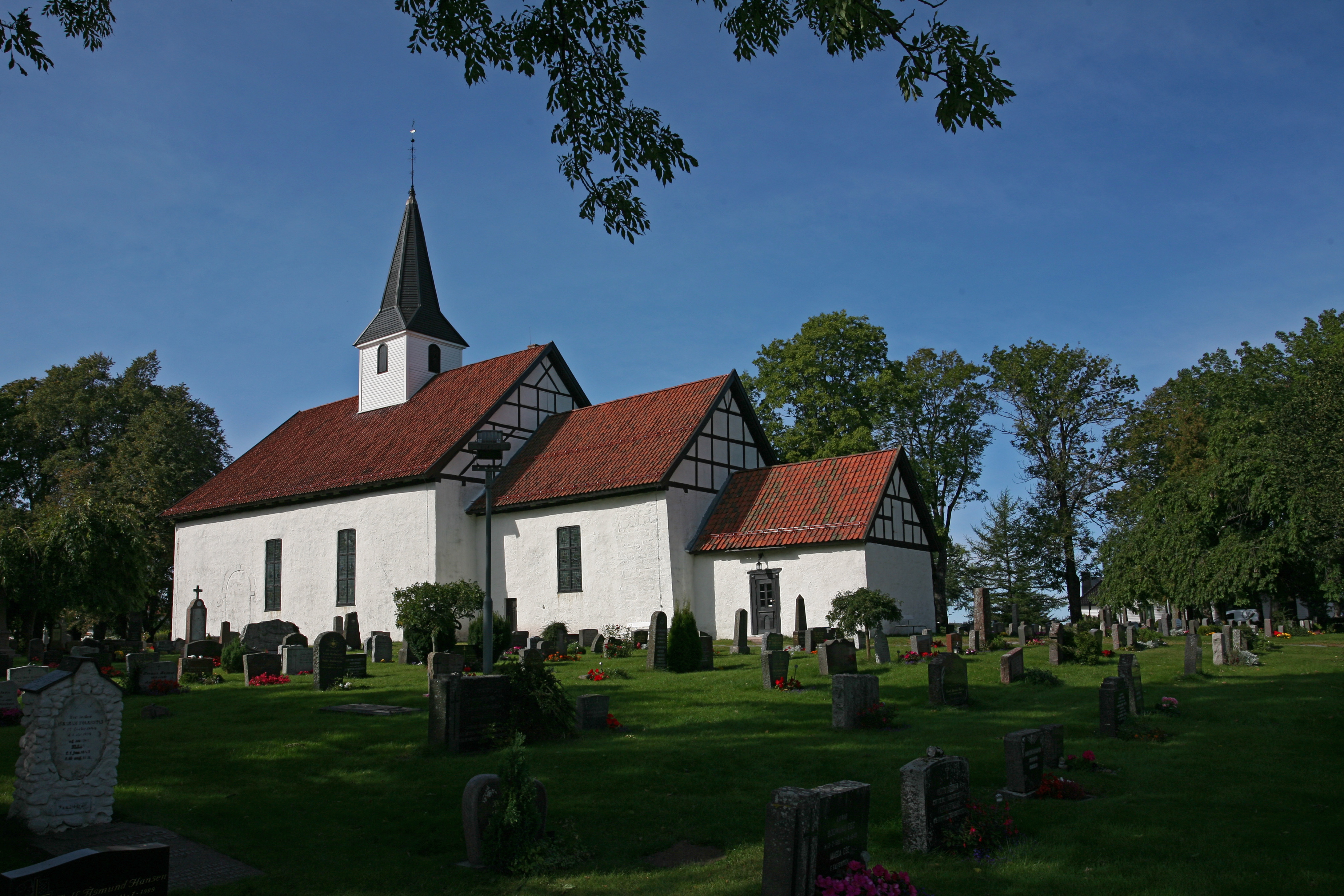 Picture of Borre kirke (Vestfold - Norway)